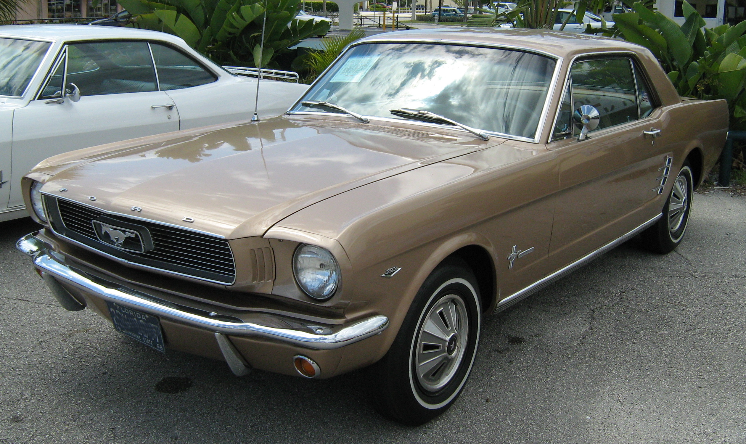 Ford T-5 (1966 Ford Mustang) sold Germany. This car was brought back to the USA and photographed in Florida.